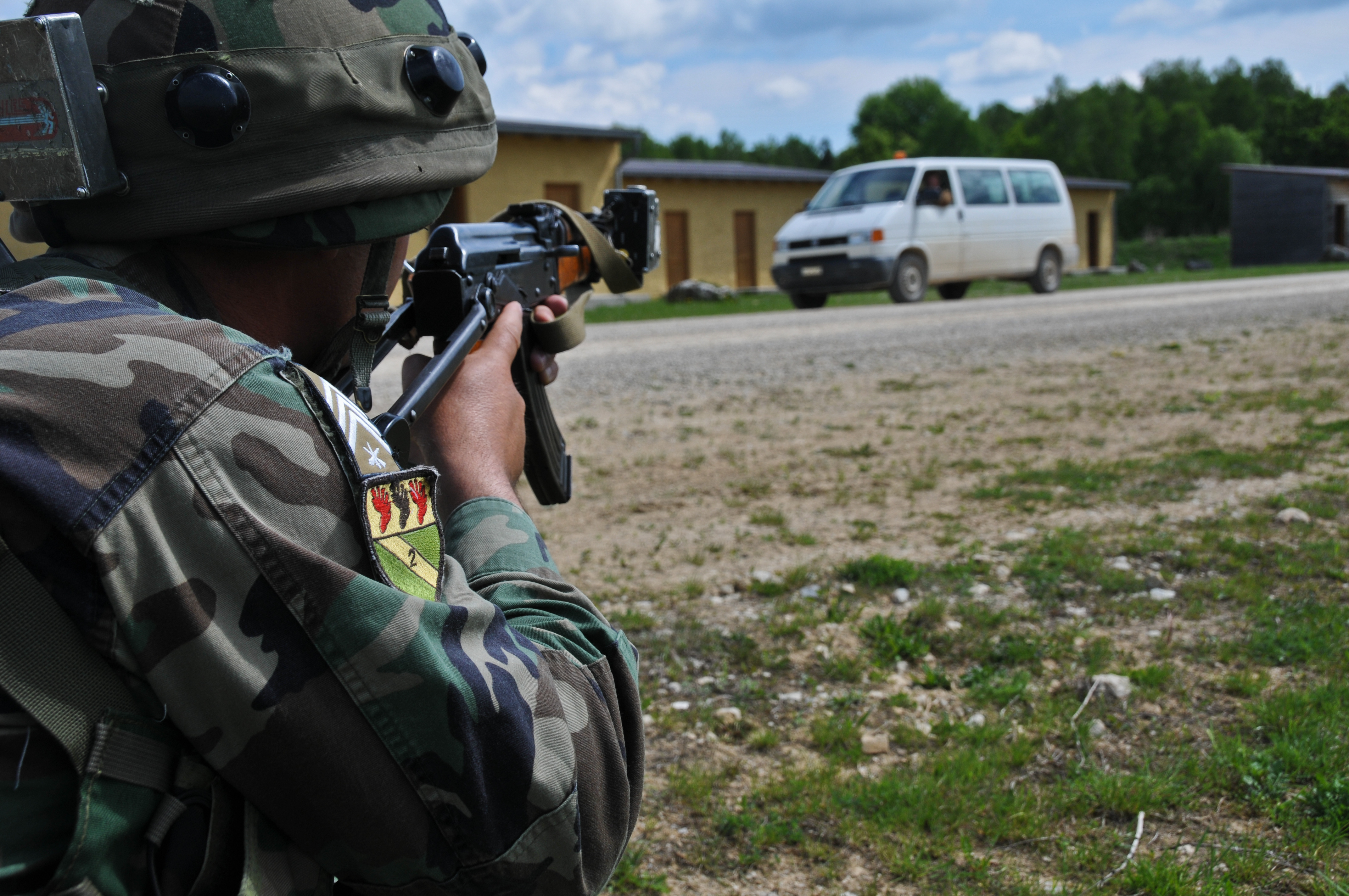 An Albanian soldier, replicating Afghan National Army, stops a vehicle during an Operational Mentor Liaison Team training exercise at the Joint Multinational Readiness Center in Hohenfels, Germany, May 10, 2012. OMLT 23 and Police Operational Mentor Liaison Team 7 training are designed to prepare teams for deployment to Afghanistan with the ability to train, advise, and enable the Afghan National Security Force in areas such as counter-insurgency, combat advisory, and force enabling support operations.